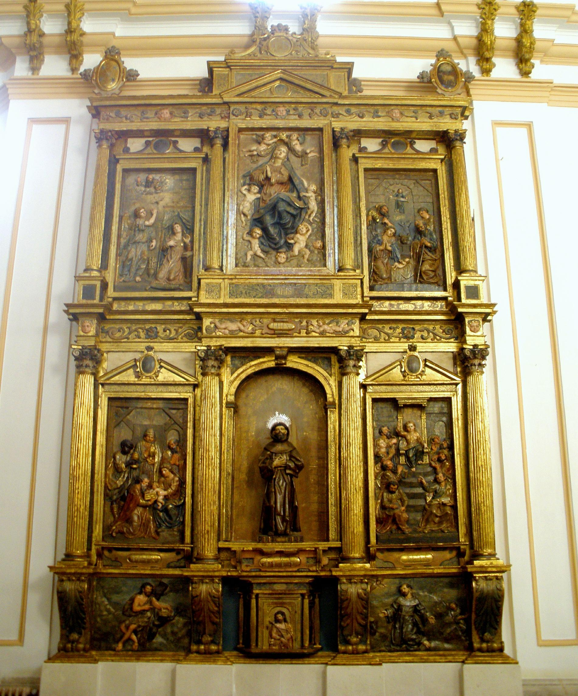 Retablo renacentista de la Inmaculada Concepción, obra de Pedro de Bolduque, en la iglesia del Convento de la Concepción, Cuéllar (provincia de Segovia, España).